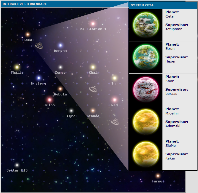 Open Ceta System on Battle Planet Website, Interactive Stellar Map